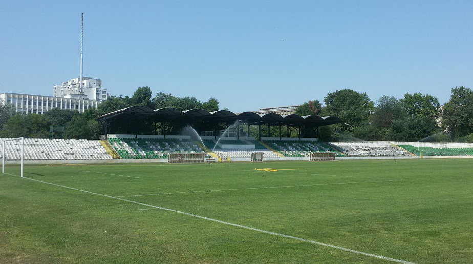 Ticha Stadium in Varna, Bulgaria